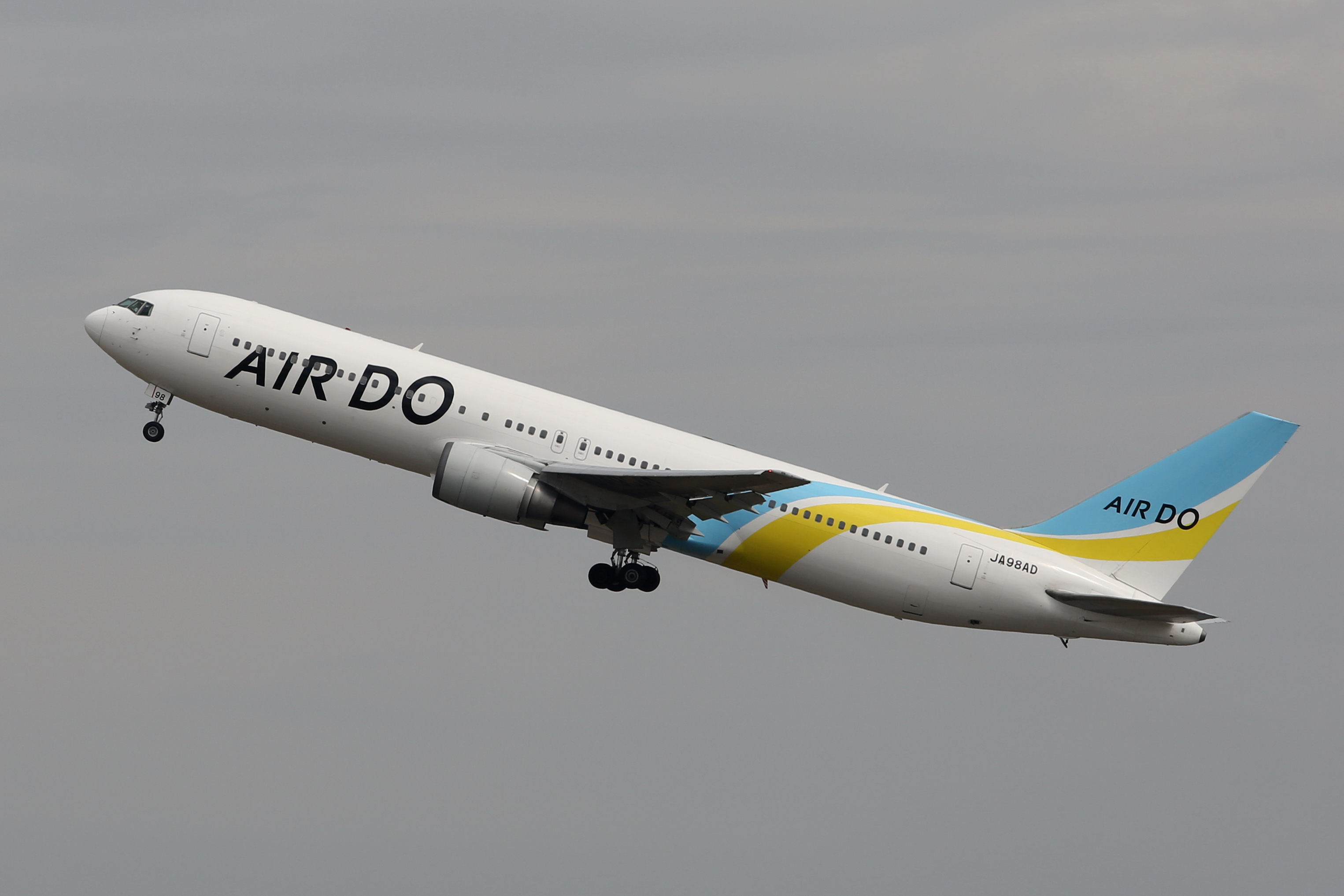 Tokyo International Airport Boeing 767-33A/ER, c/n:27476, AIRDO